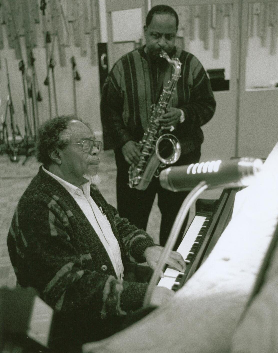 Ed Wiley with pianist Sir Roland Hanna for the "Sassy" session in Brooklyn, 2001